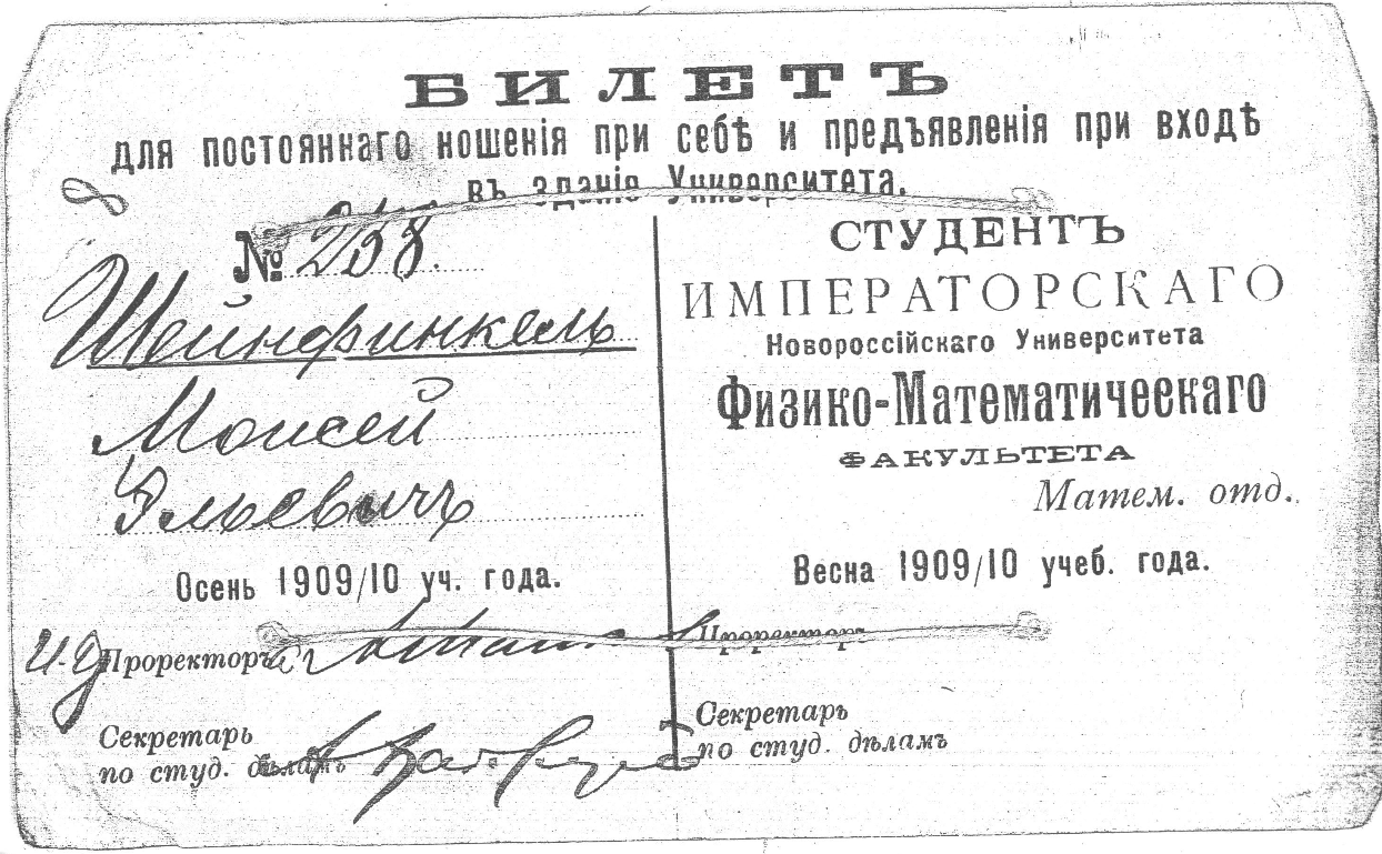 Moses Schonfinkel, student permit to Imperial Novorossiya University (Odessa University) in 1910